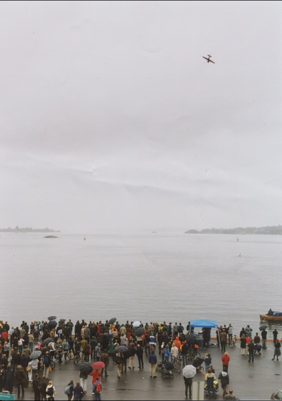 Dance for an Extra 330, Pilot Tor Andre Fusdahl, music by Palace of Pleasure. Idea and coreography Ina Eriksen